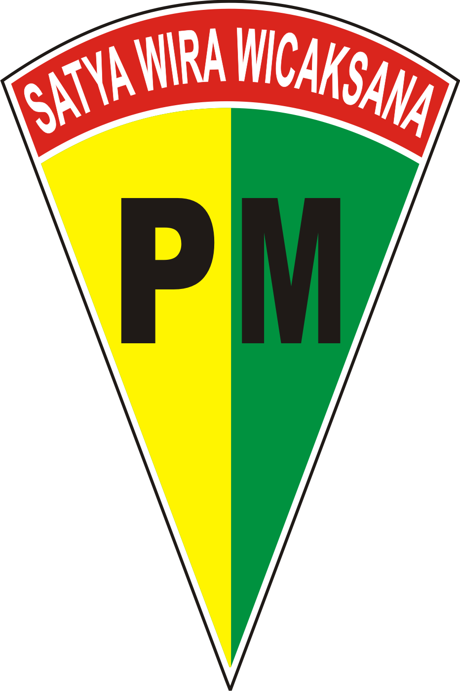 Indonesian Military Police corps logo